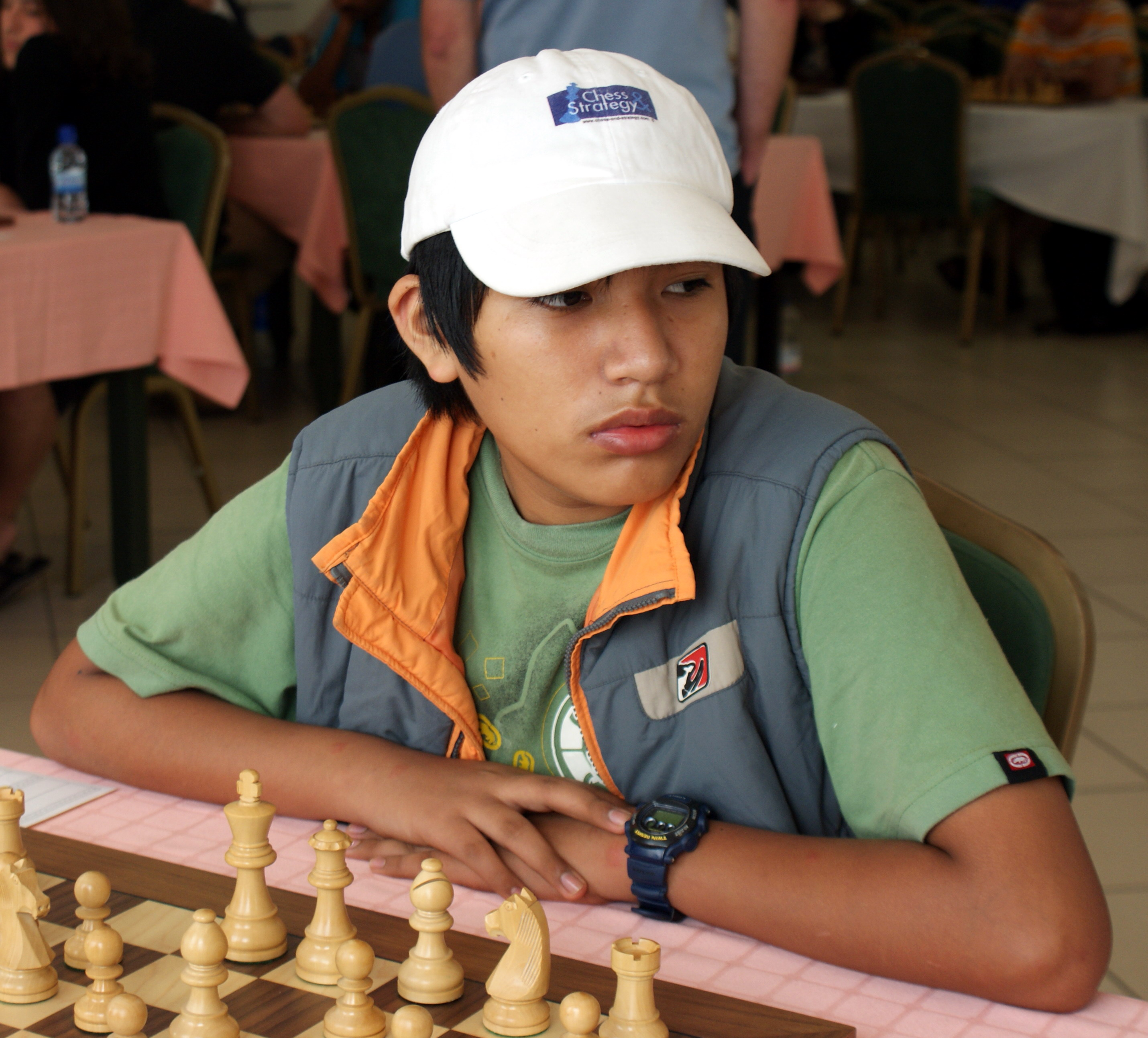 GM Jorge Cori Tello (Peru) XXVIII Obert Internacional d'Andorra Ronda 9 Hotel St. Gothard - Erts